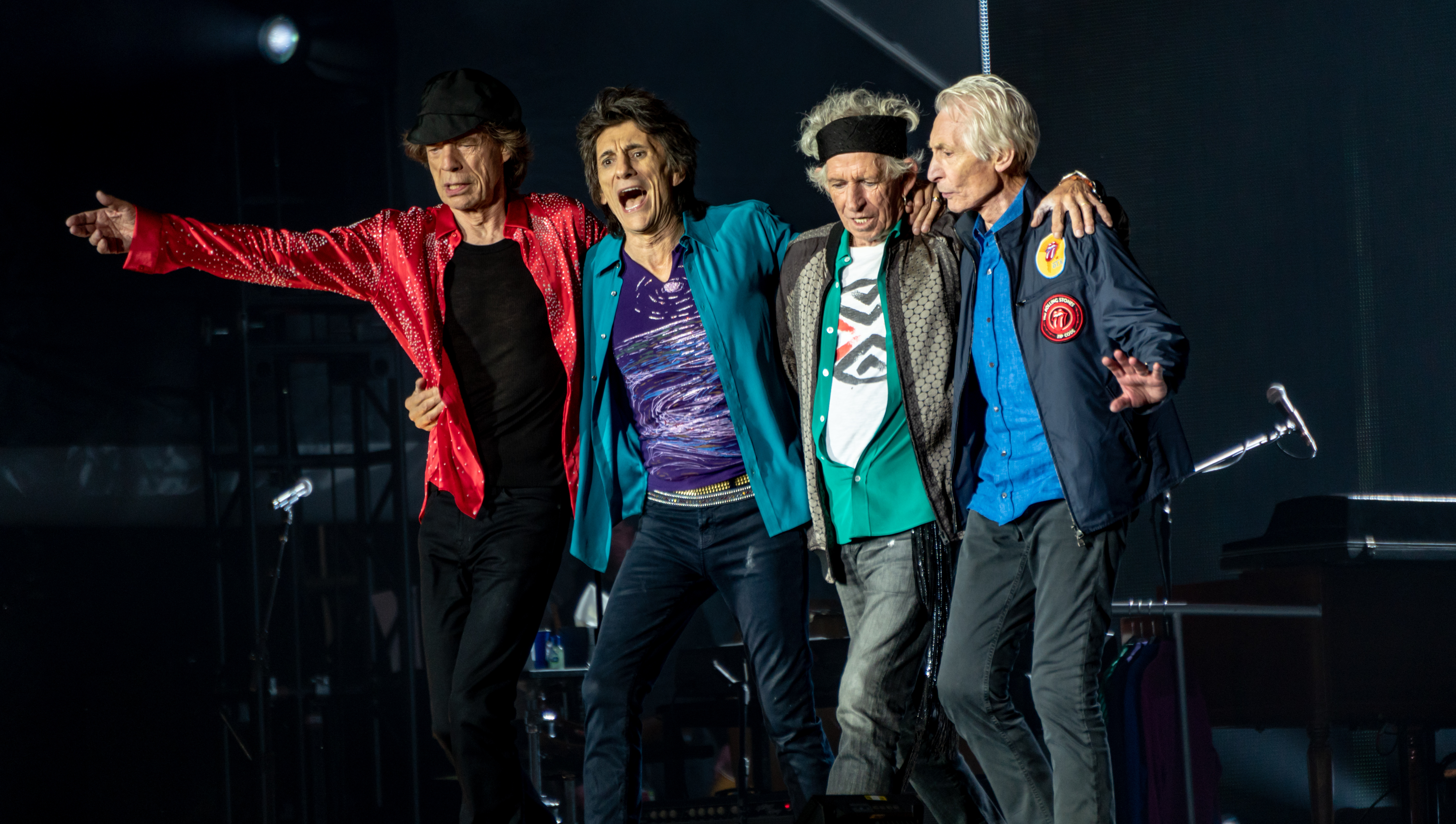 From left: Mick Jagger, Ronnie Wood, Keith Richards, Charlie Watts bow post-show on 22 May 2018 in London.